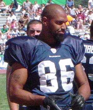 Seattle Seahawks tight end Jerramy Stevens takes a break during the 2005 Seahawks Extravaganza and Scrimmage at Eastern Washington University.